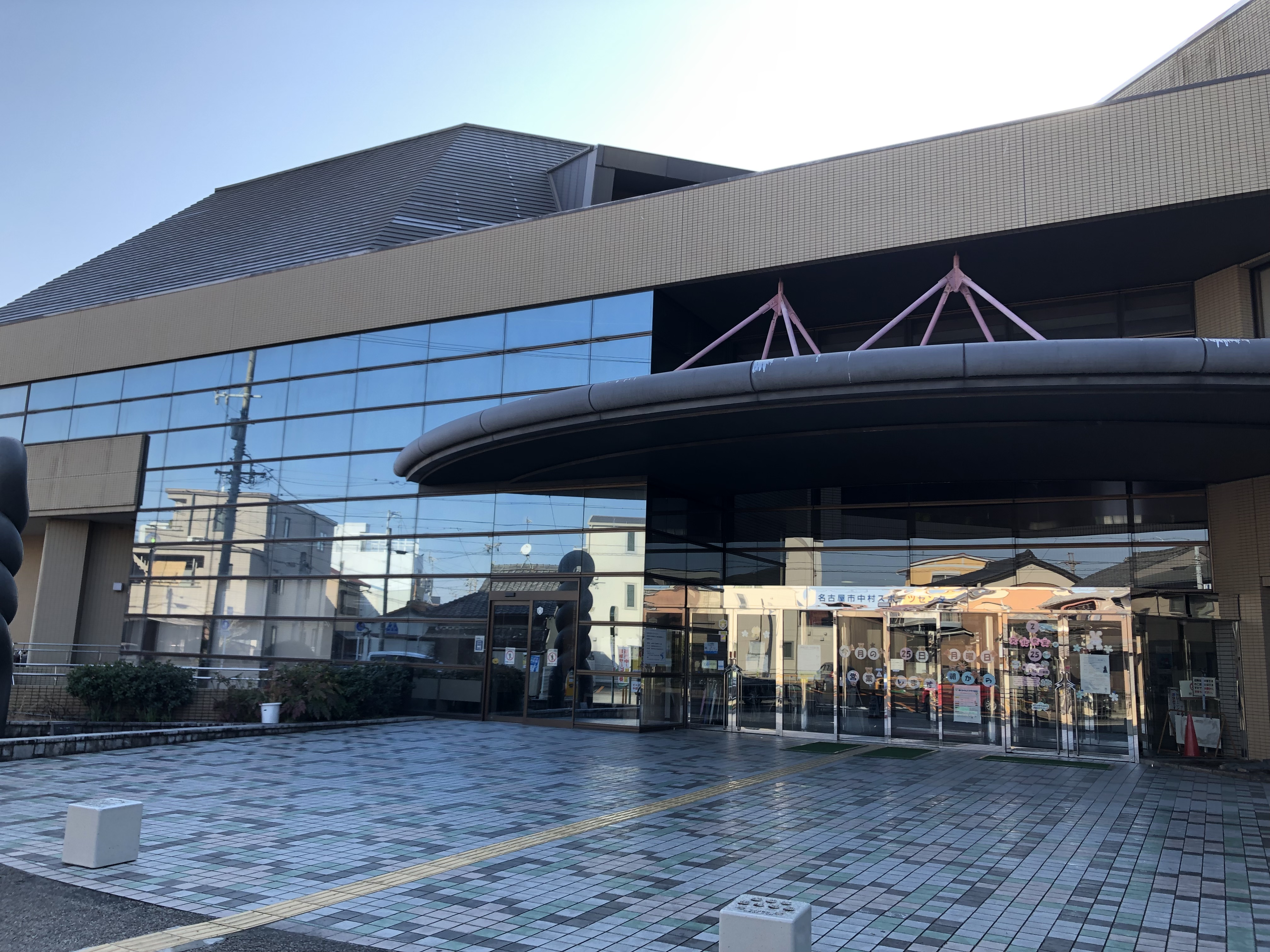 Nakamura Sports Center